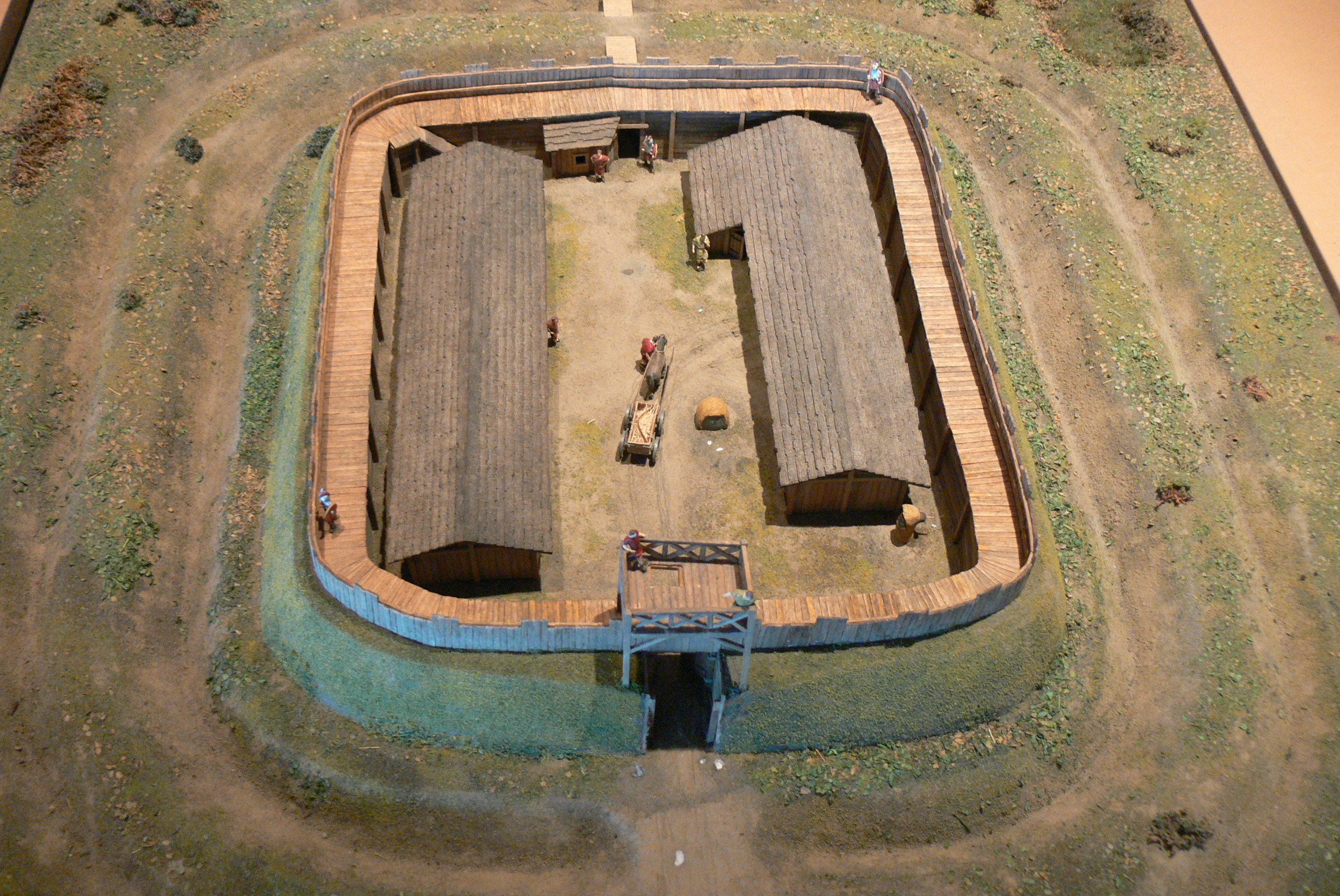 Celtic Museum Manching ( Bavaria ). Modell of the ancient Roman fortification ( 30s AD ) at Nersingen.